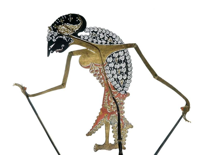 Wayang kulit figure, representing Sumbadra